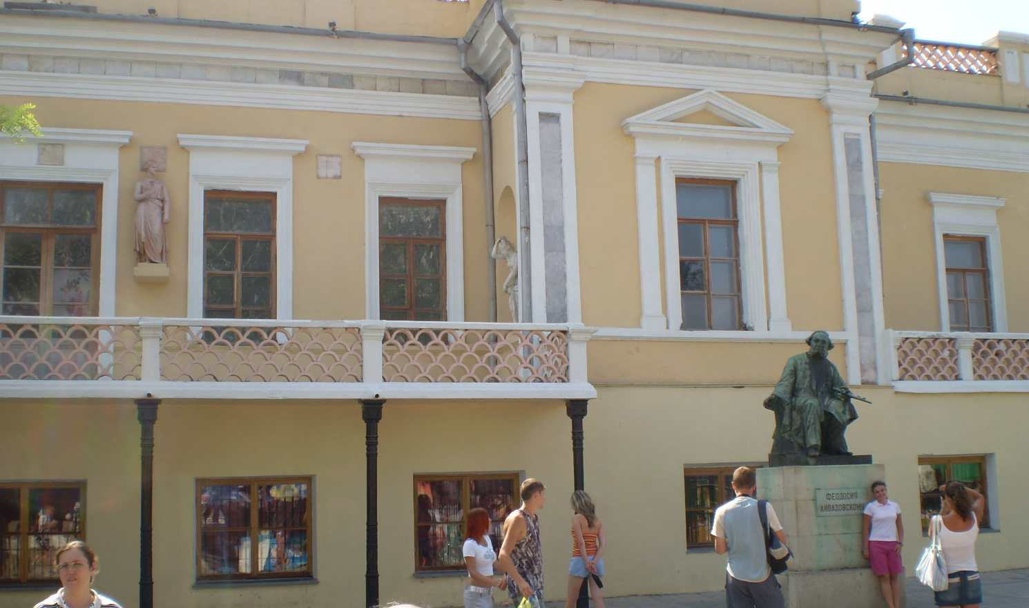 Ivan Aivazovsky museum and monument in Theodosia